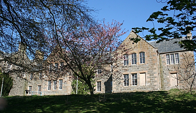 Ladysbridge Hospital One of the main accommodation blocks, seen through a gap in the surrounding fence.